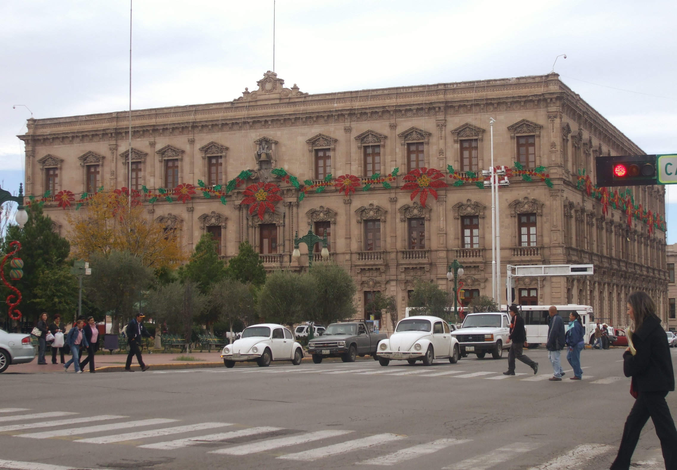 The Government Palace, Chihuahua, Mexico at Christmas